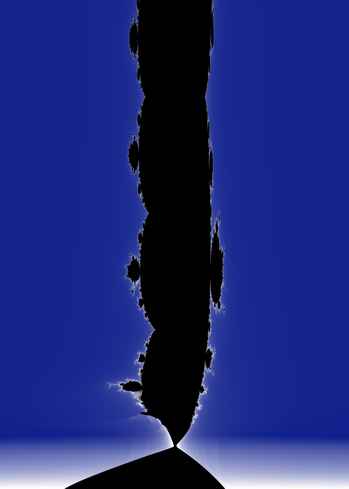 Multibrot rendered with exponent on vertical axis along a plane angled 45-degrees between the real and imaginary axes.